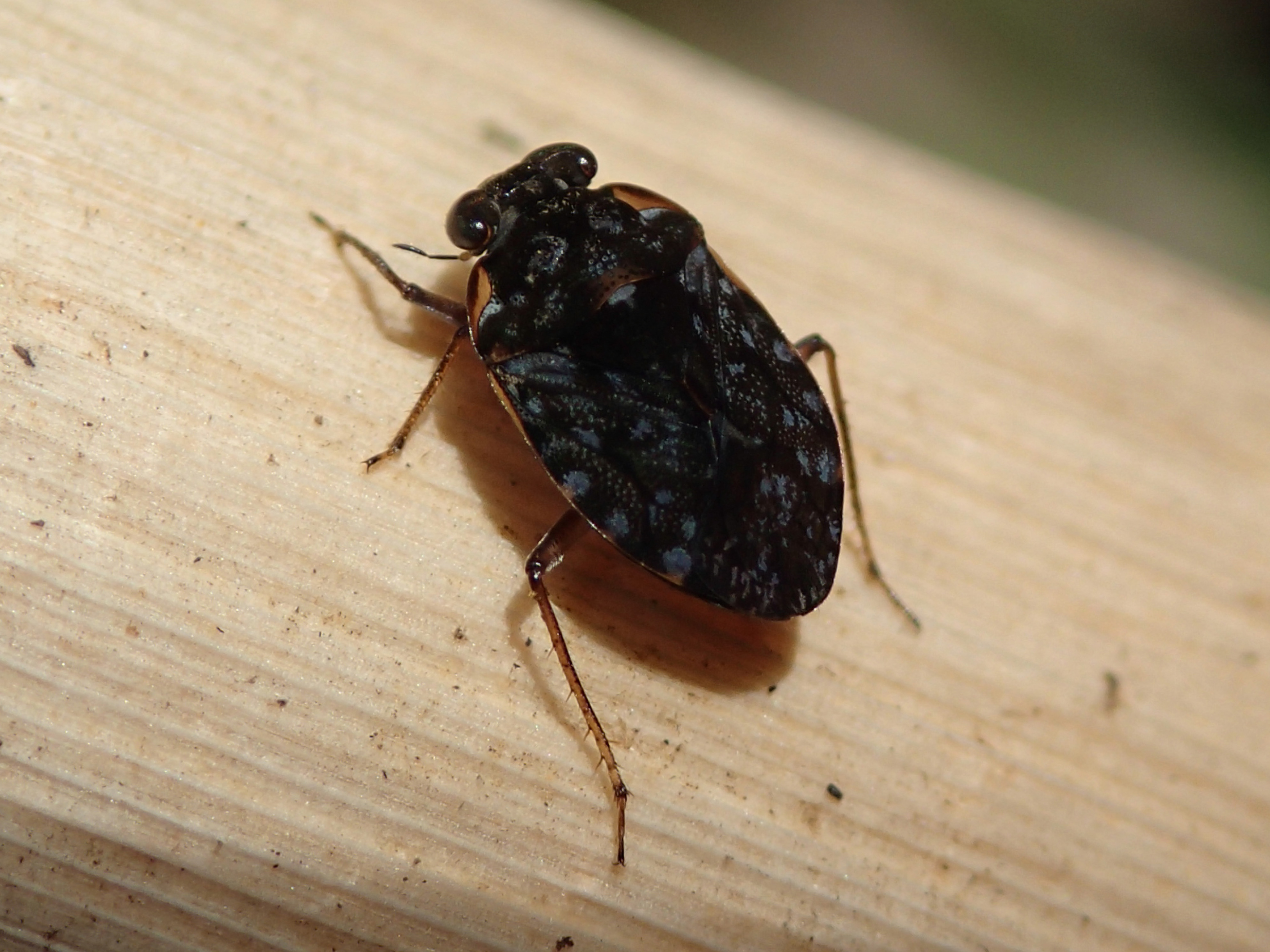 Ochterus marginatus (Latreille, 1804) (Hemiptera: Octheridae). Kawasaki, Kanagawa, Japan.